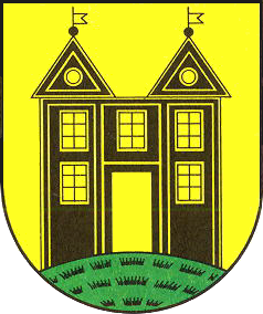 Coat of Arms of Lugau/Erzgeb.